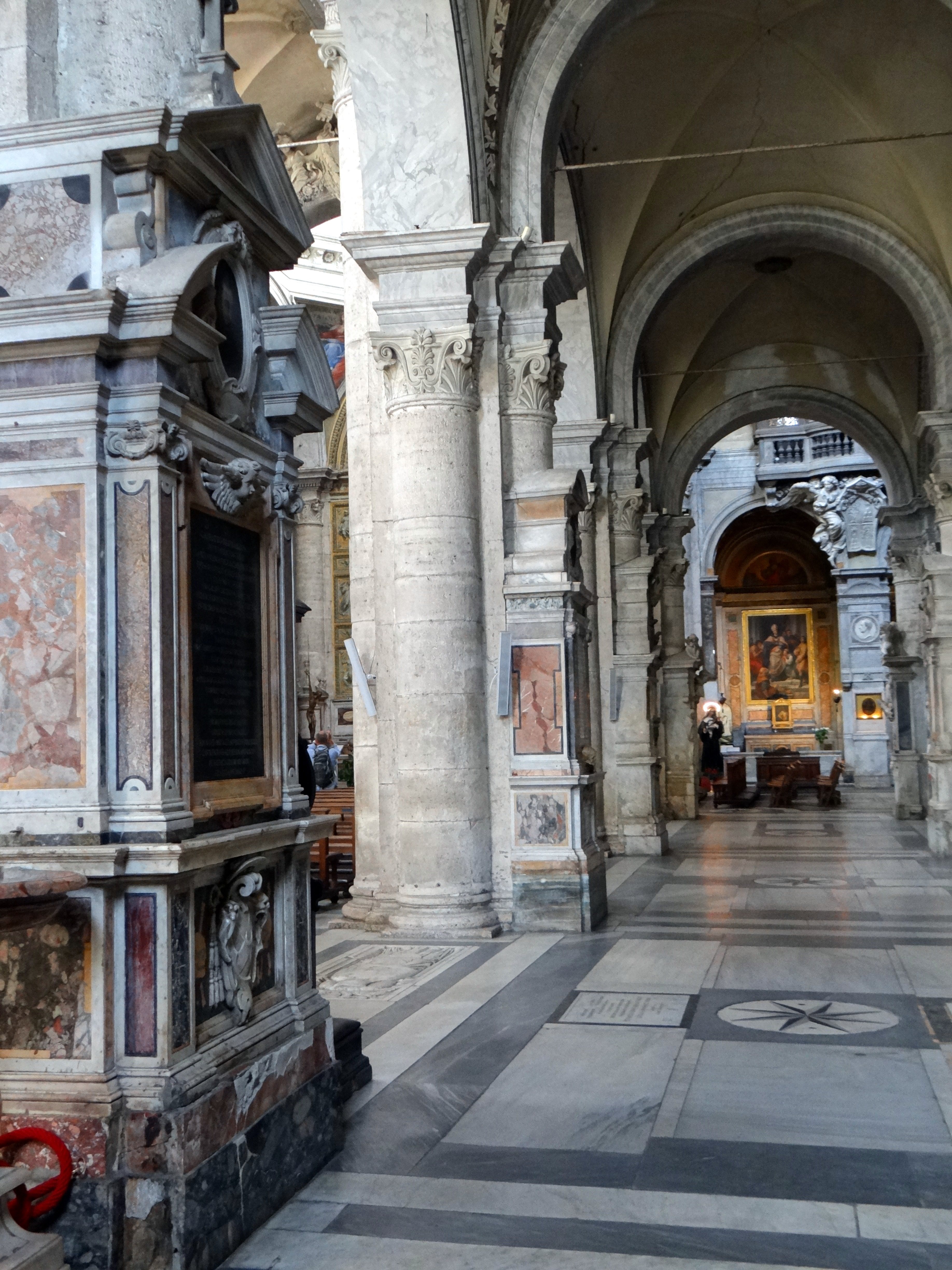 Row of Baroque funeral monuments in the south aisle of the Basilica of Santa Maria del Popolo, Rome.